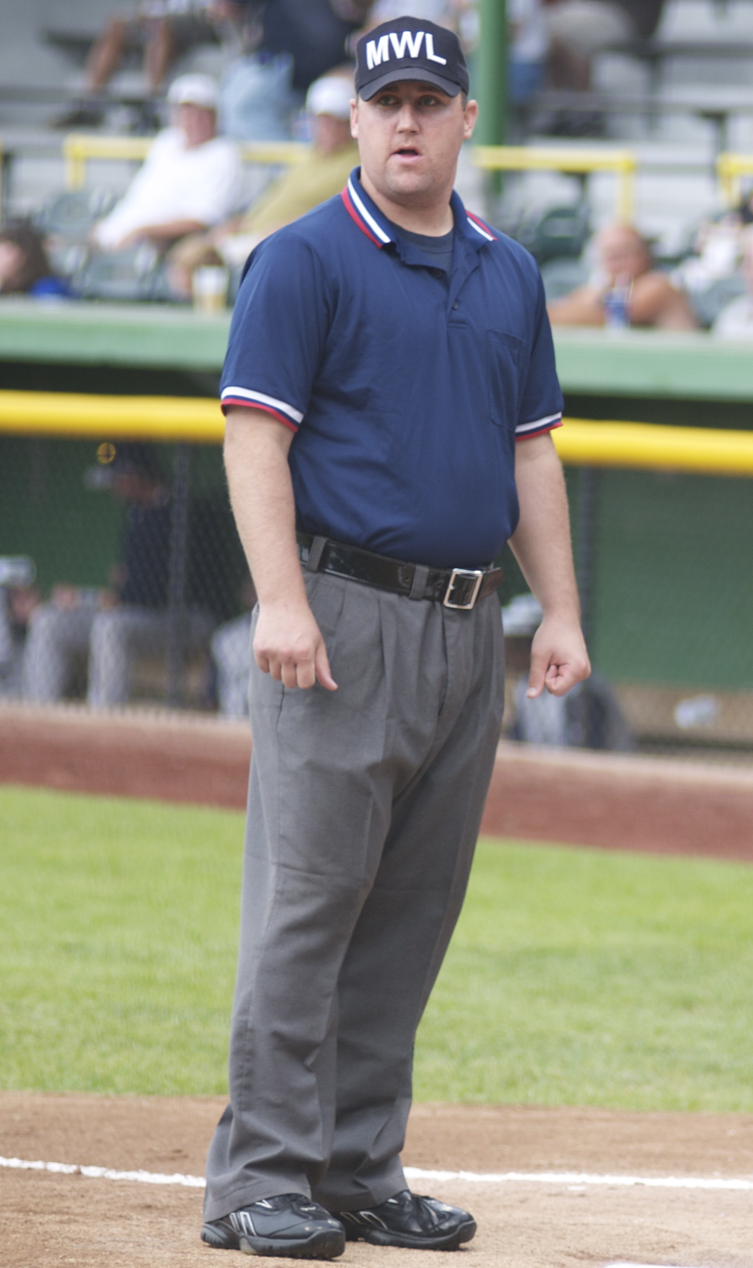 Umpires Ryan Blakney (left) and Ben May during a game between the Fort Wayne Wizards and Clinton LumberKings in 2008